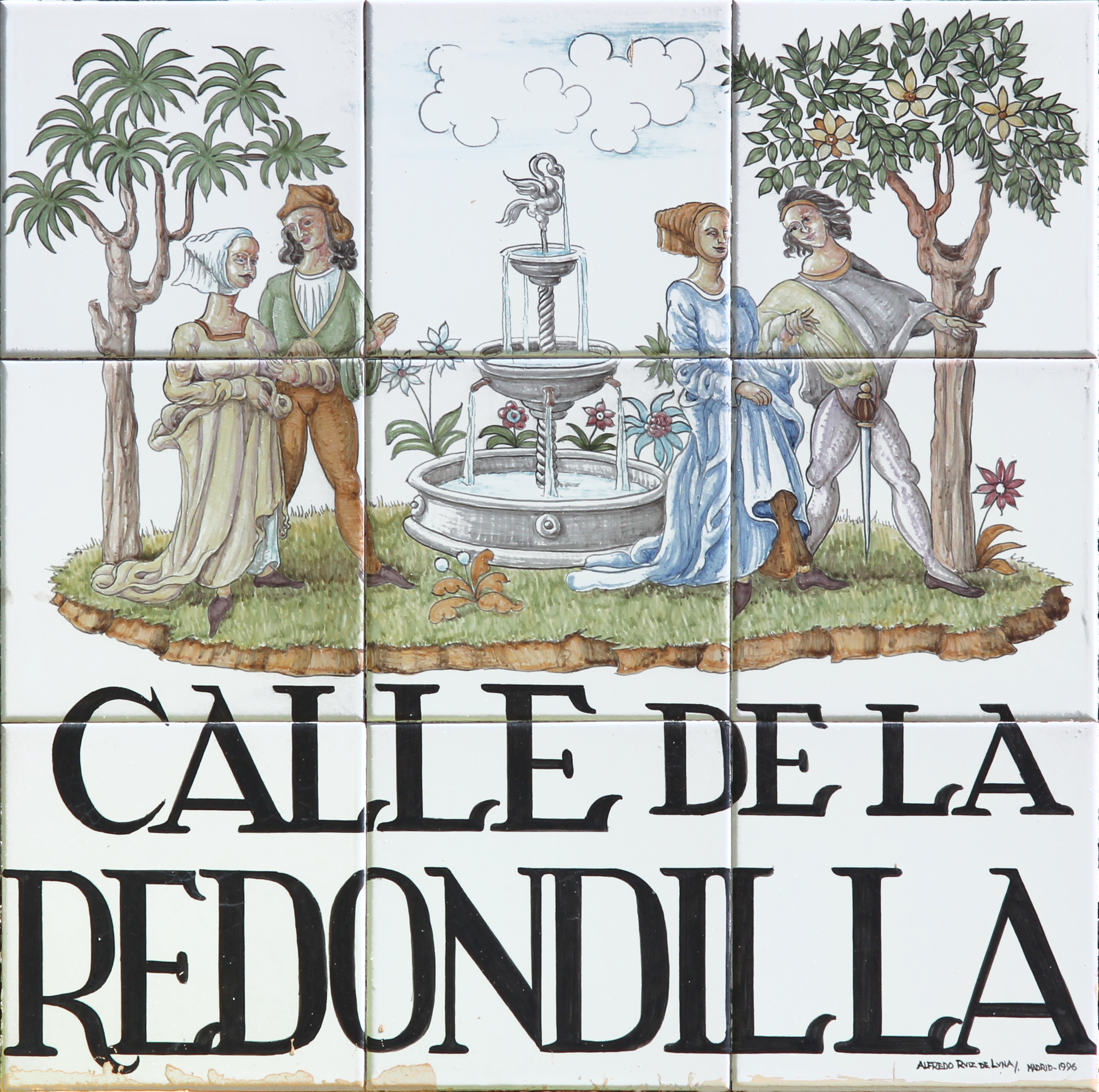 Sign of Calle de la Redondilla (street) in Madrid (Spain).